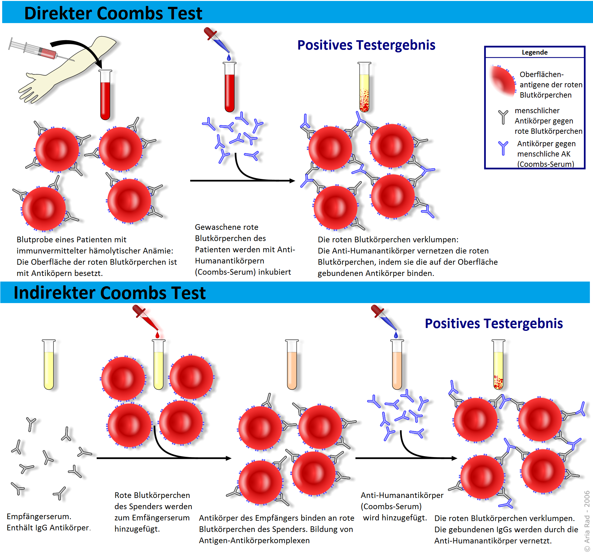 German translation of A.Rads Work